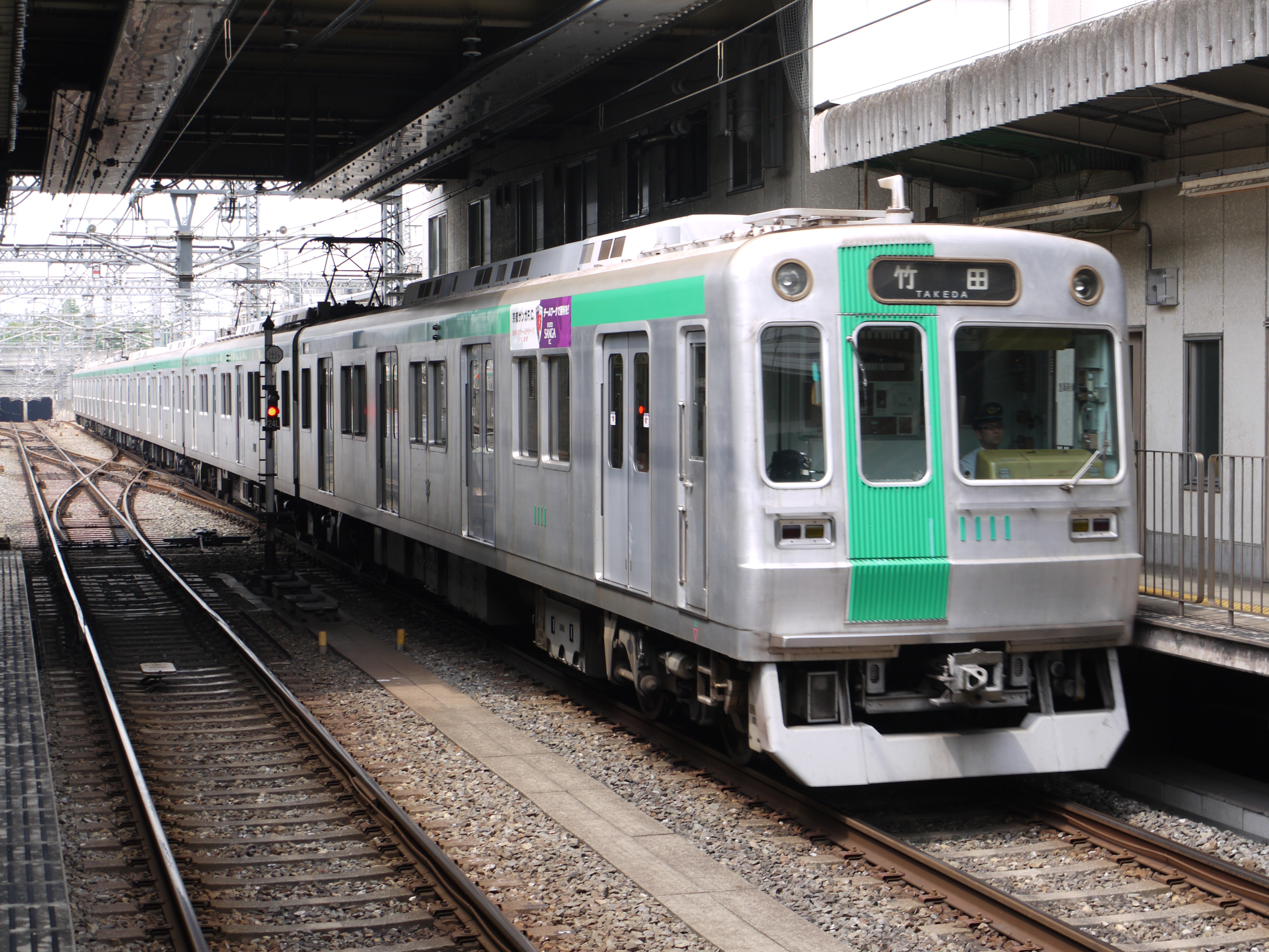 Kyoto Subway unit 1111 at Takeda station